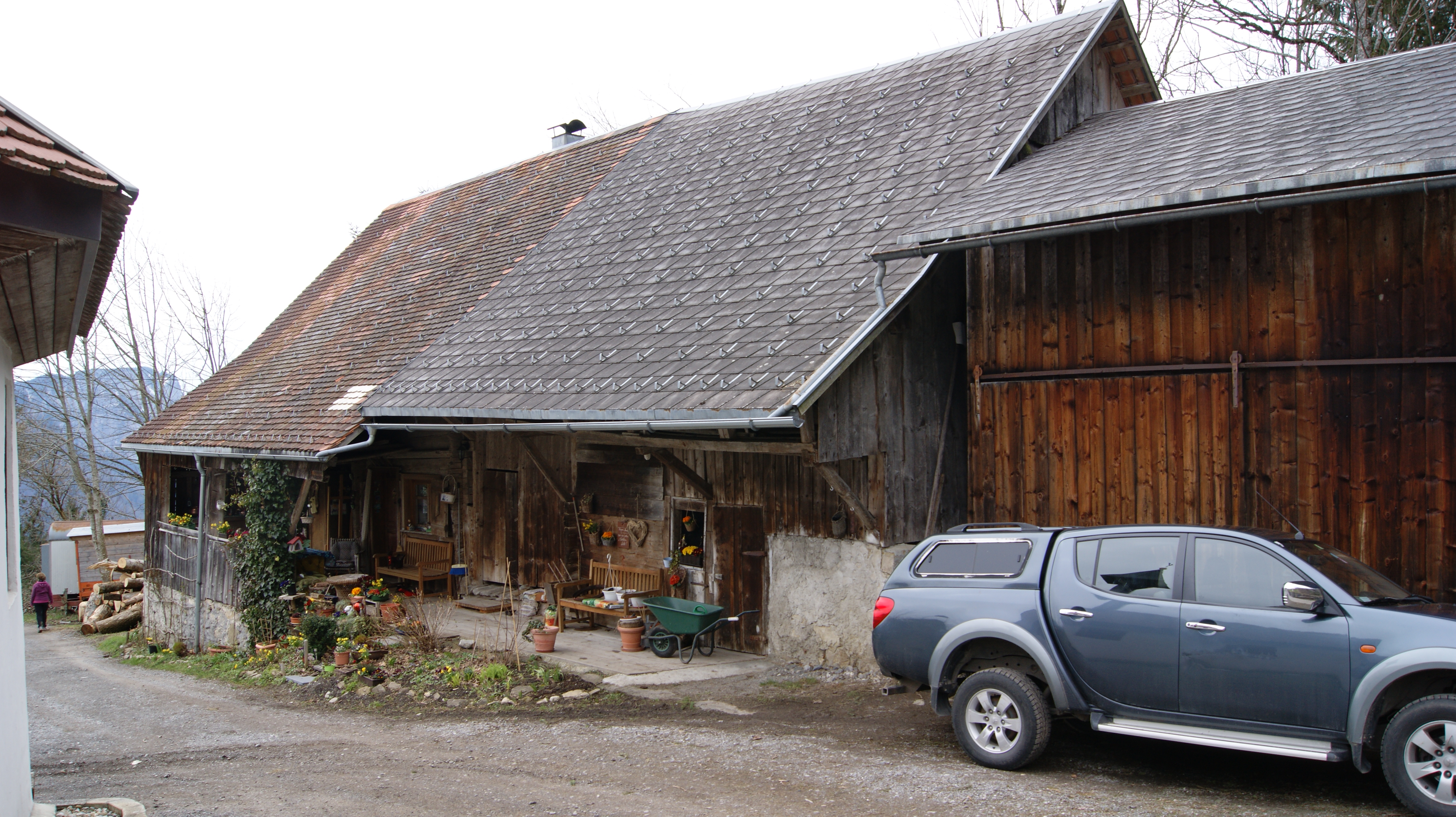 Schauner, a hamlet in Dornbirn, Vorarlberg, Austria. Rhine-Valley-House Schauner No. 2.